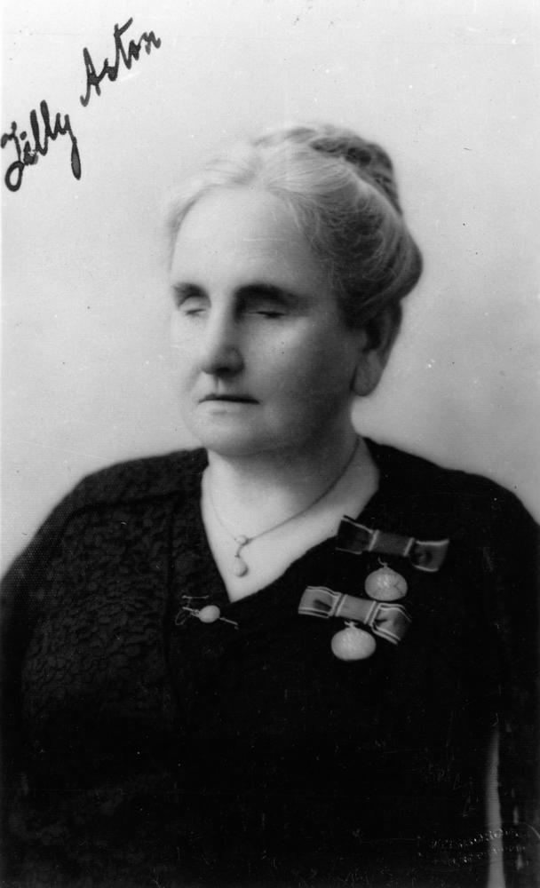 Tilly Aston